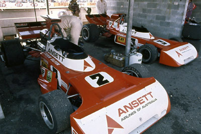 The Elfin MR5's of Garrie Cooper and John McCormack in the pits at Surfers Paradise International Raceway. The event was a round of the Gold Star series for the Australian Driver's Championship on 27th August 1972.